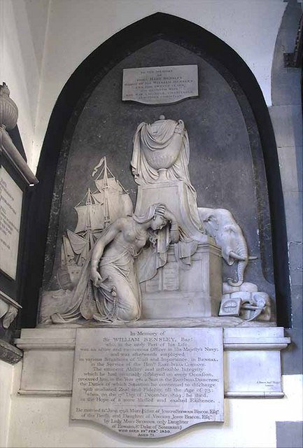 St Mary, Bletchingley - Wall monument